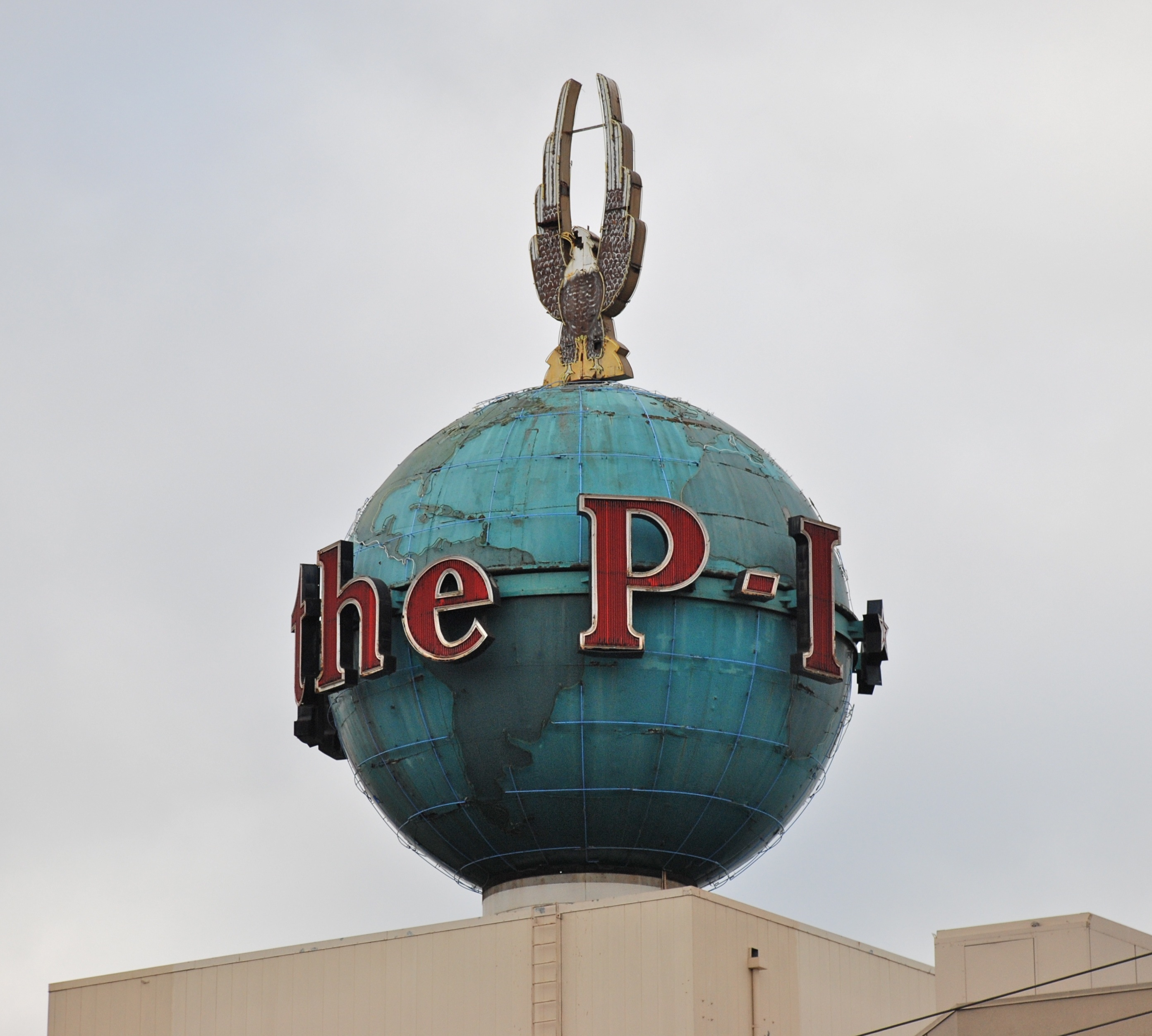 The P-I Globe, the historic neon sign of the Seattle Post-Intelligencer, was designated an official city landmark in 2012. The lettering reads "It's in the P-I", the newspaper's longtime slogan.